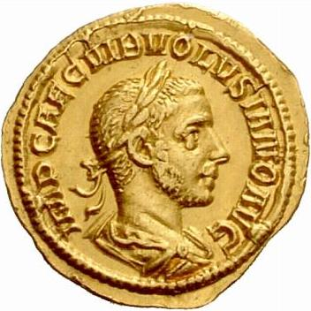 Volusianus, 251-253, Aureus 251-253, AV 3.50 g. IMP CAE C VIB VOLVSIANO AVG Laureate, draped and cuirassed bust r. Calicó 3358 (this coin). C –. RIC 156.